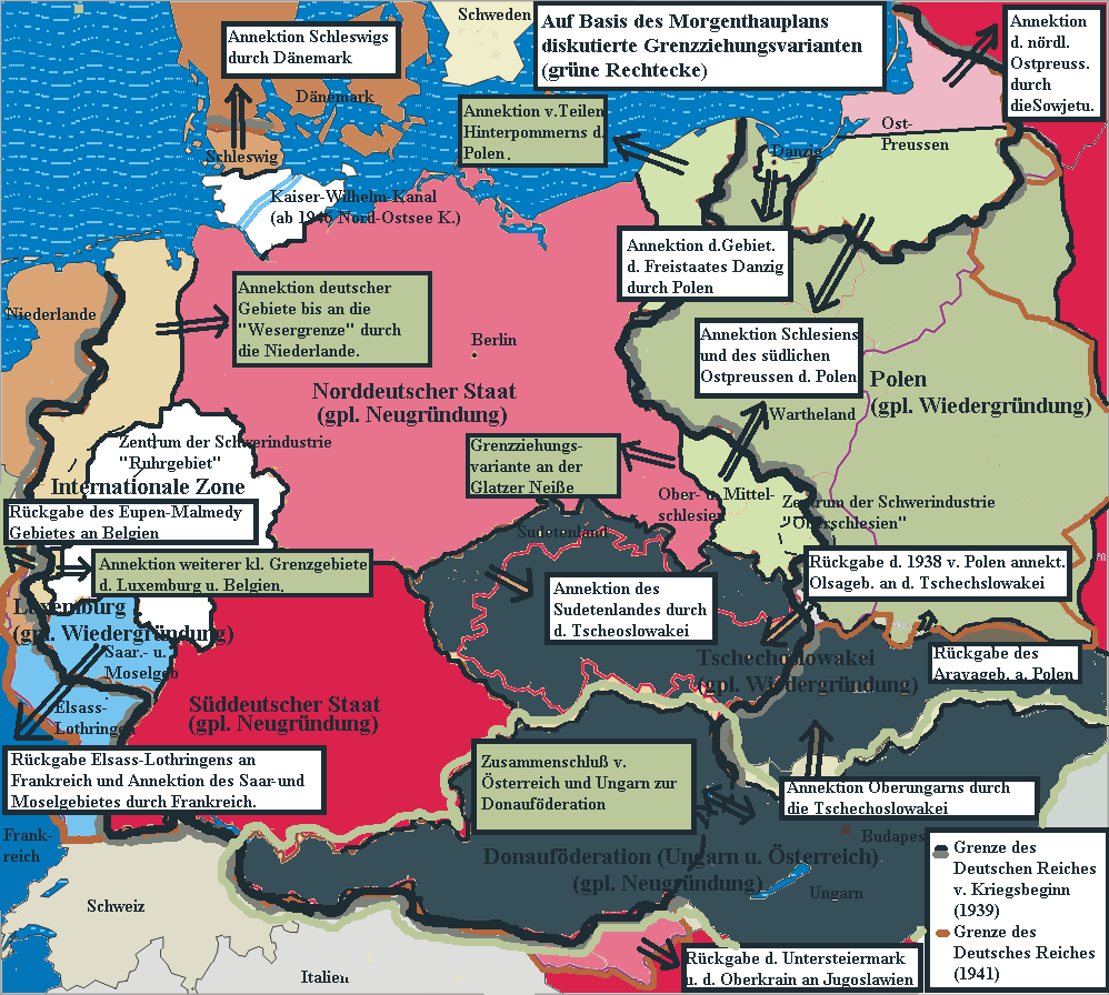 Morgenthau Plan (Large Danube federation)